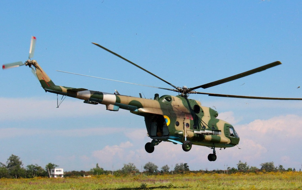 Cadets and officers of the faculty of training of highly mobile airborne troops of the Military Academy (Odessa) during the practical testing programs for parachute training to improve skills and reinforce the personal experience of skydiving. Classes are held at the center of the educational process of the military institution. The main part of jumping paratroopers carried out the Mi-8 helicopter from a height of 600 meters with arms and ammunition. Landing is carried out both day and night. Also within the field exit of the cadets worked the landing with Mi-8 with the on-Board equipment “Adapter-M1” and the evacuation of the group by helicopter from the site where it is impossible to land. The final stage of practical training of cadets and officers of the airborne will be landing military transport aircraft An-26.